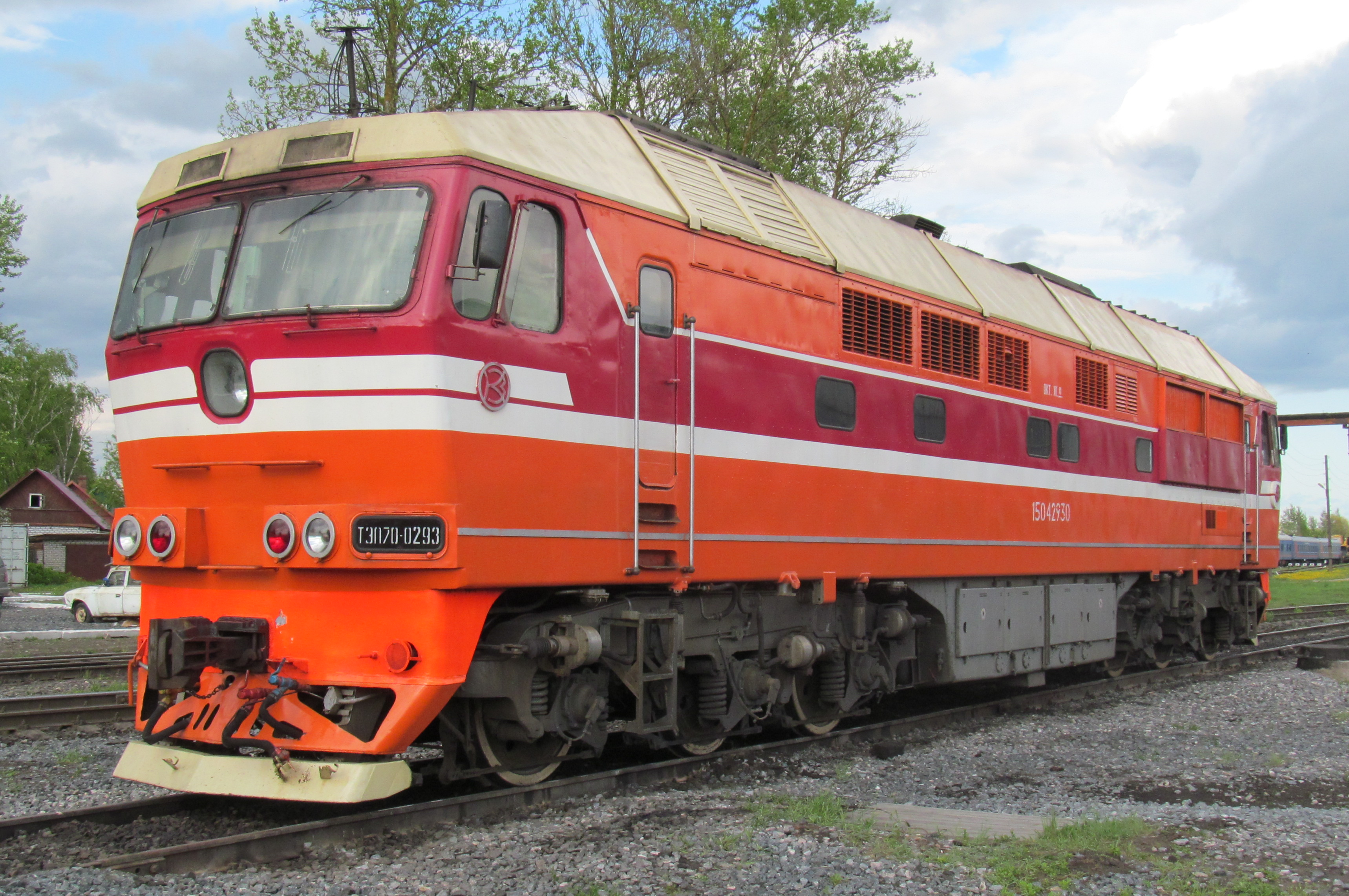 TEP70-0293 diesel locomotive in Pskov locomotive depot